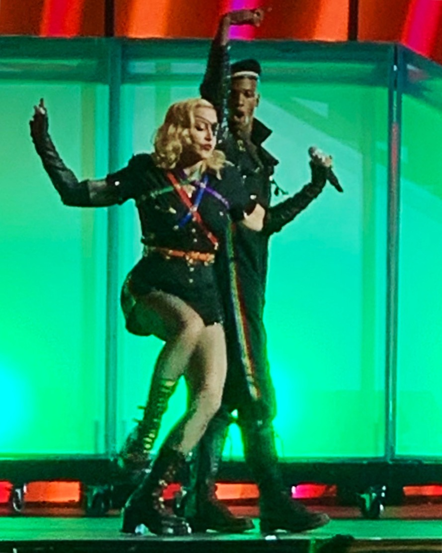 Madonna performing at the Stonewall 50 – WorldPride NYC 2019